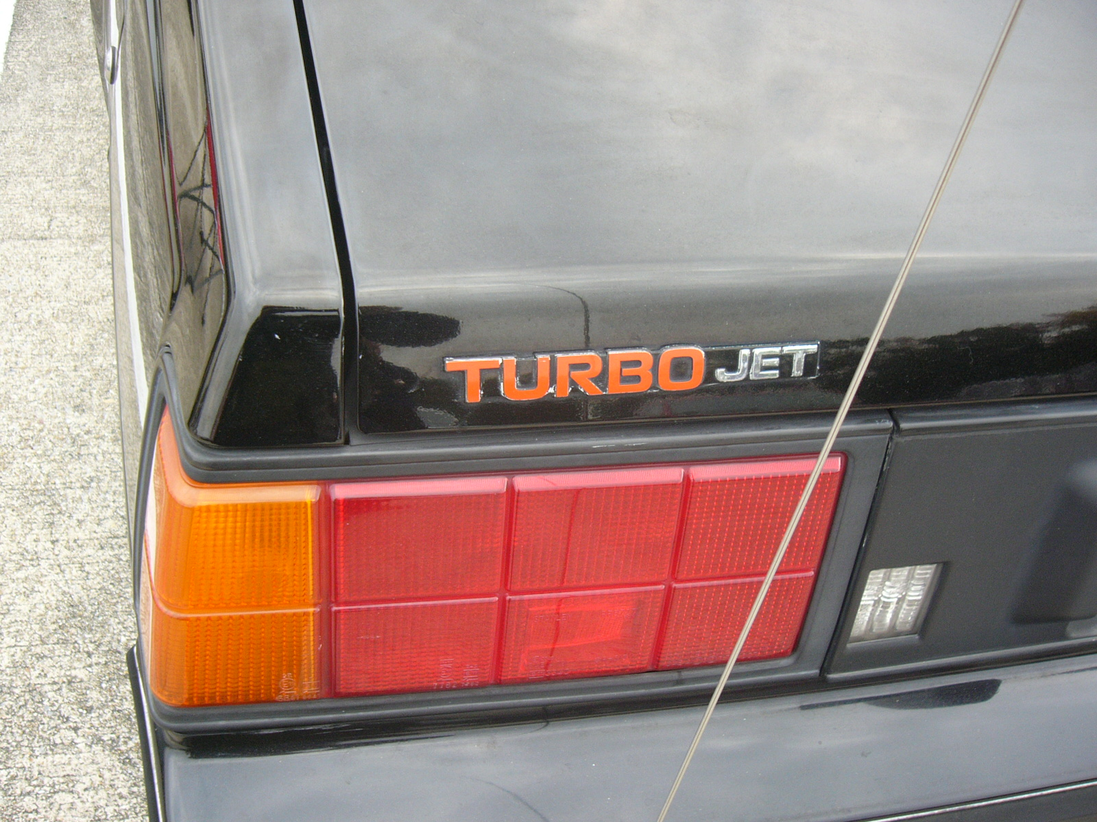 Affixed Mitsubishi Galant Λ 2000 GSR Turbo(A164A), Indicating that it is a turbo engine of MCA-JET equipped, trunk lid emblem of TURBO-JET. Vehicle that participated in the 2013 MMF Okazaki.